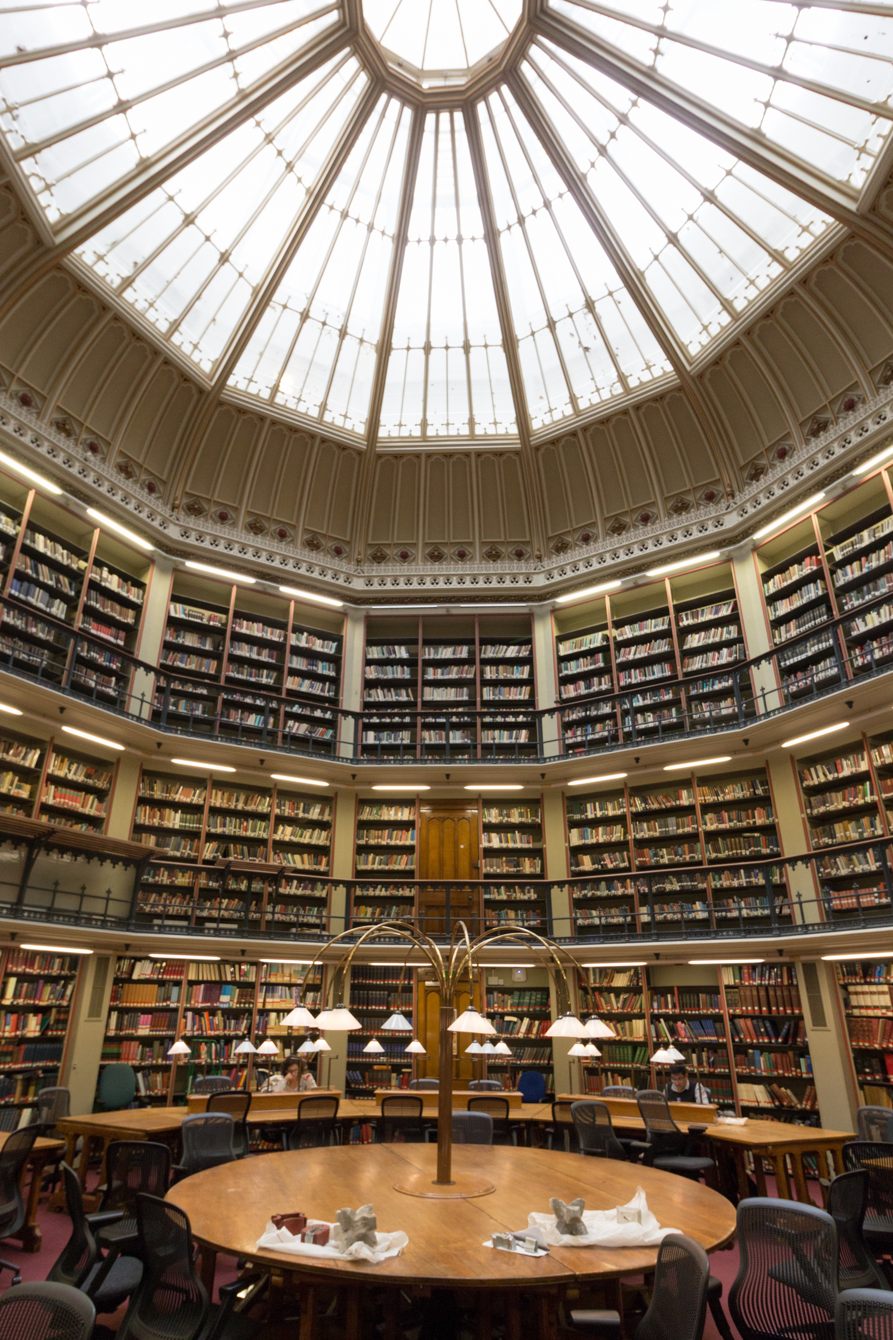 The Round Reading Room at the Maughan Library, London. Inspired by the reading room of the British Museum.